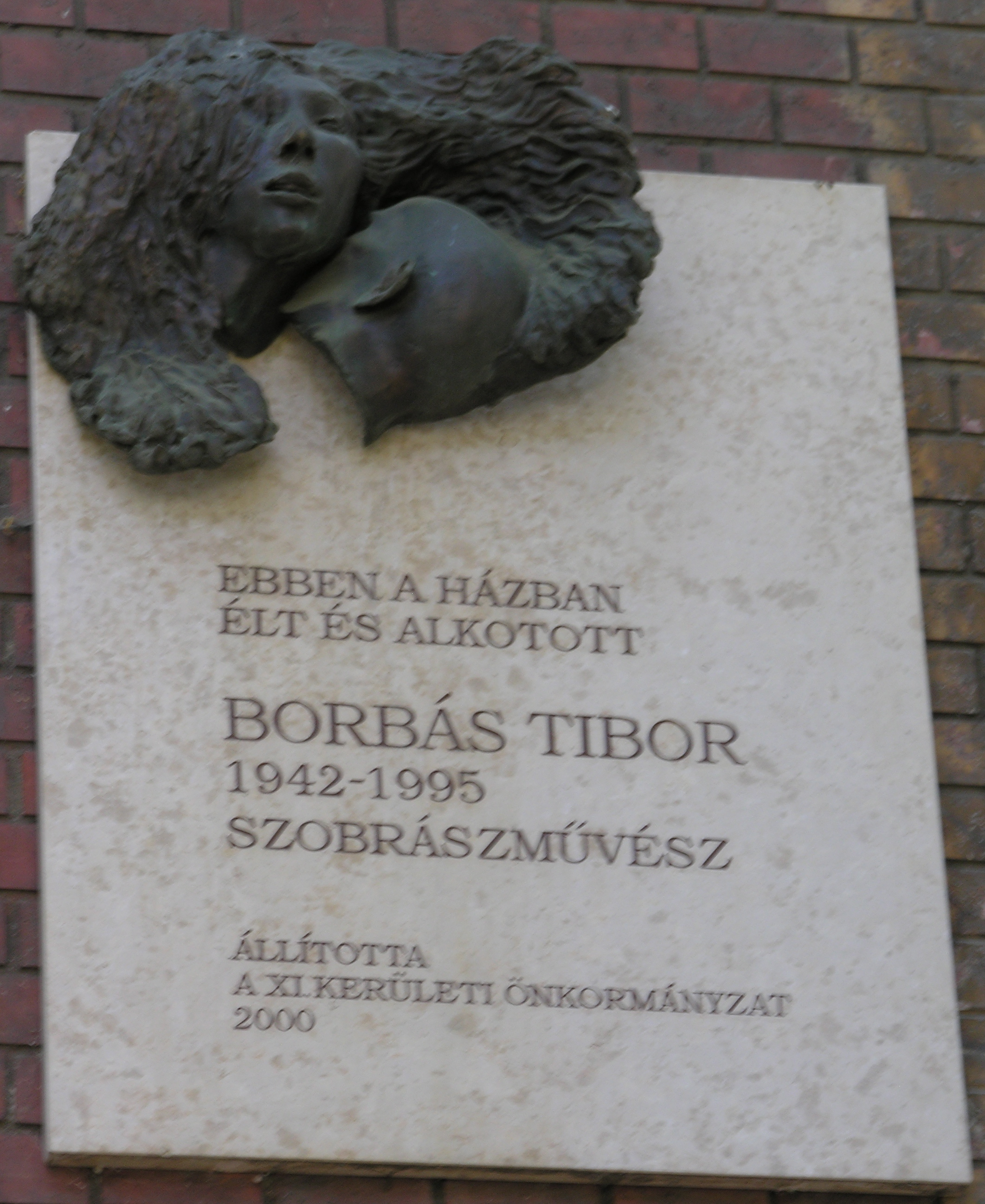 Commemorative plaque of Tibor Borbás in Budapest District XI, Himfy Street No 3. Sculptor: Éva Magyar.